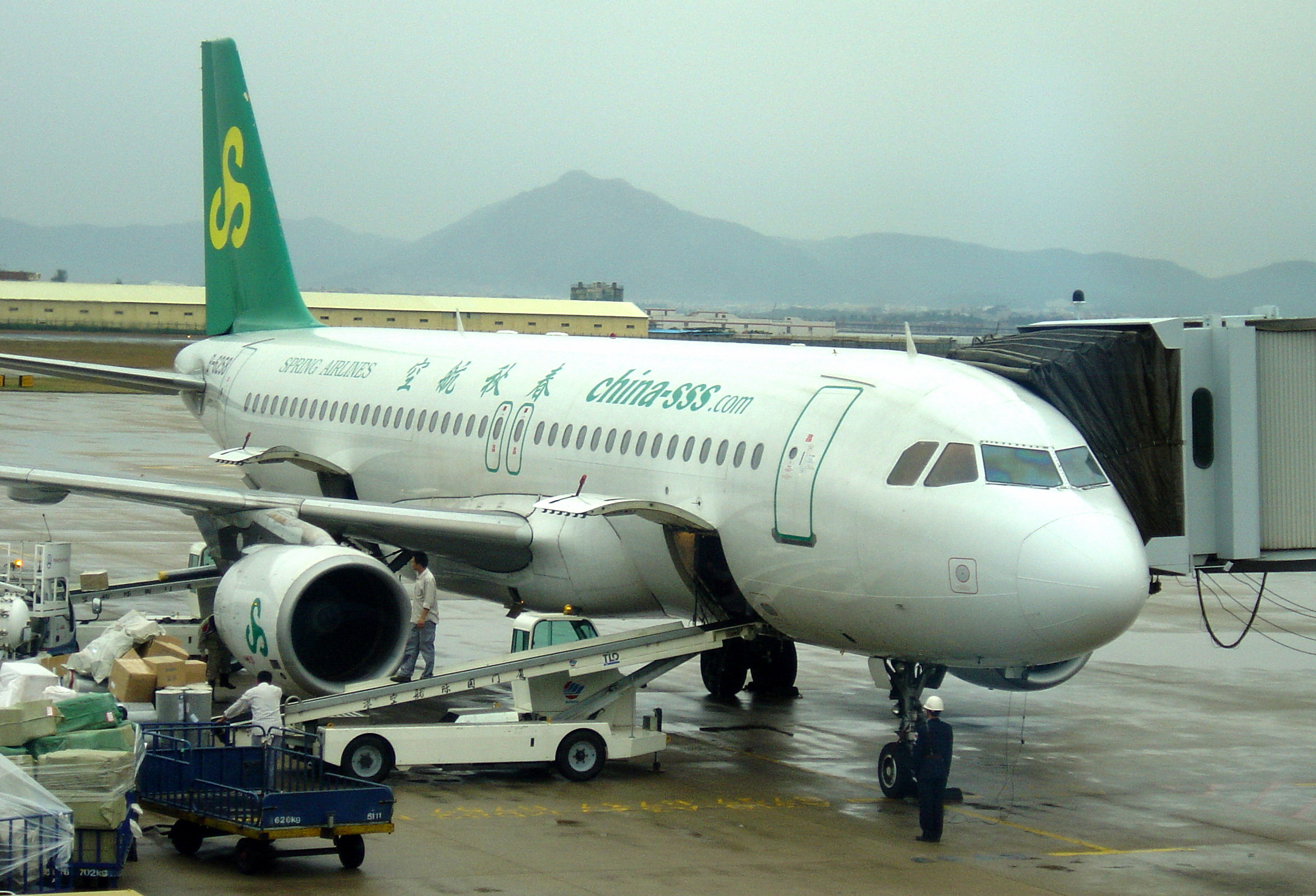 Spring Airlines Airbus A320 on the tarmac at Xiamen International Airport